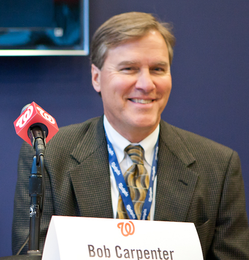 Washington Nationals broadcaster Bob Carpenter This file has been extracted from another file: F. P. Santangelo and Bob Carpenter.jpg